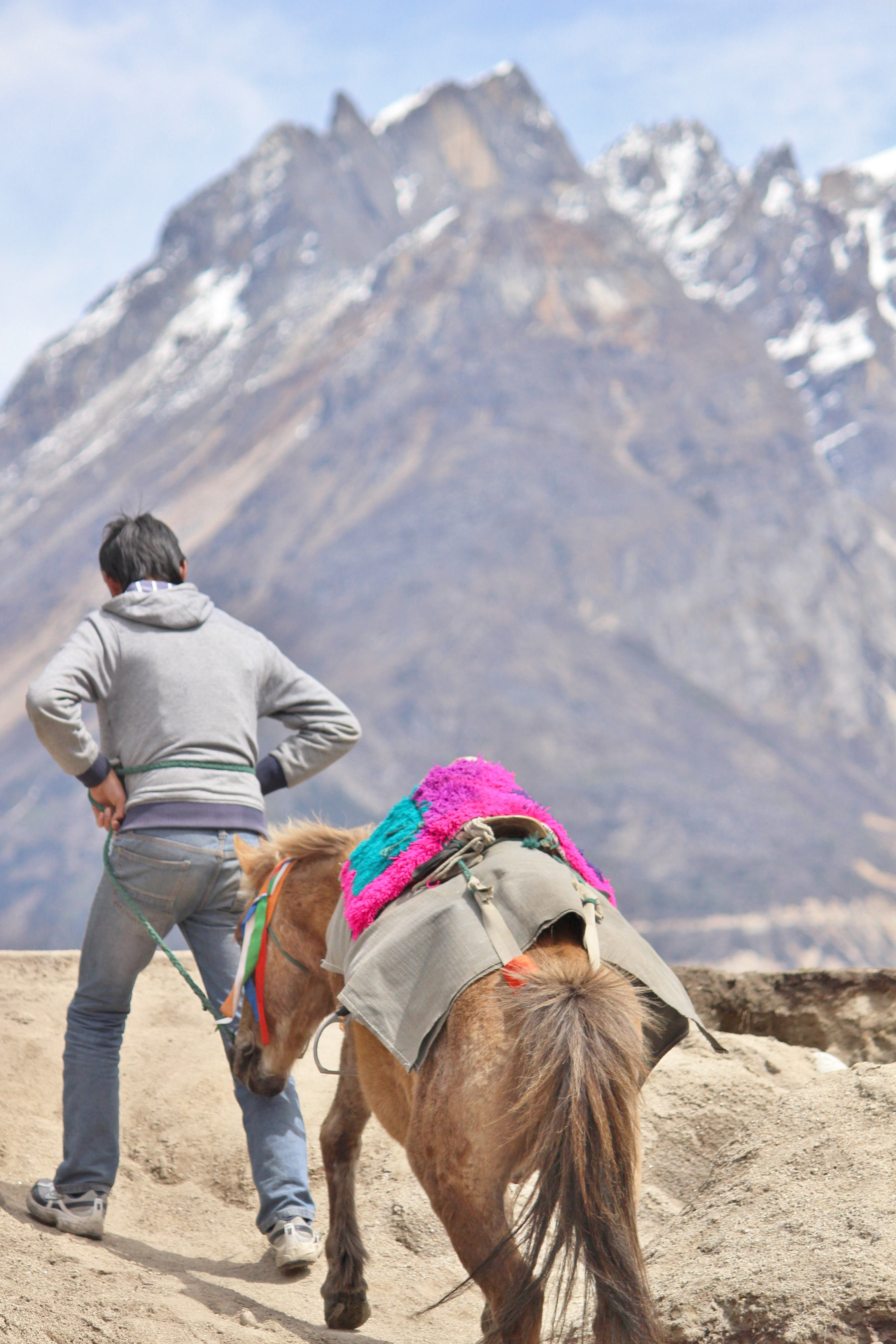 A Horse, and his owner walk on the steep land in Yumthang Valley (part of the Shingba Sanctuary) on the riverbed of Teesta river. The background focuses a mountain probably in the Kanchenjunga Range.